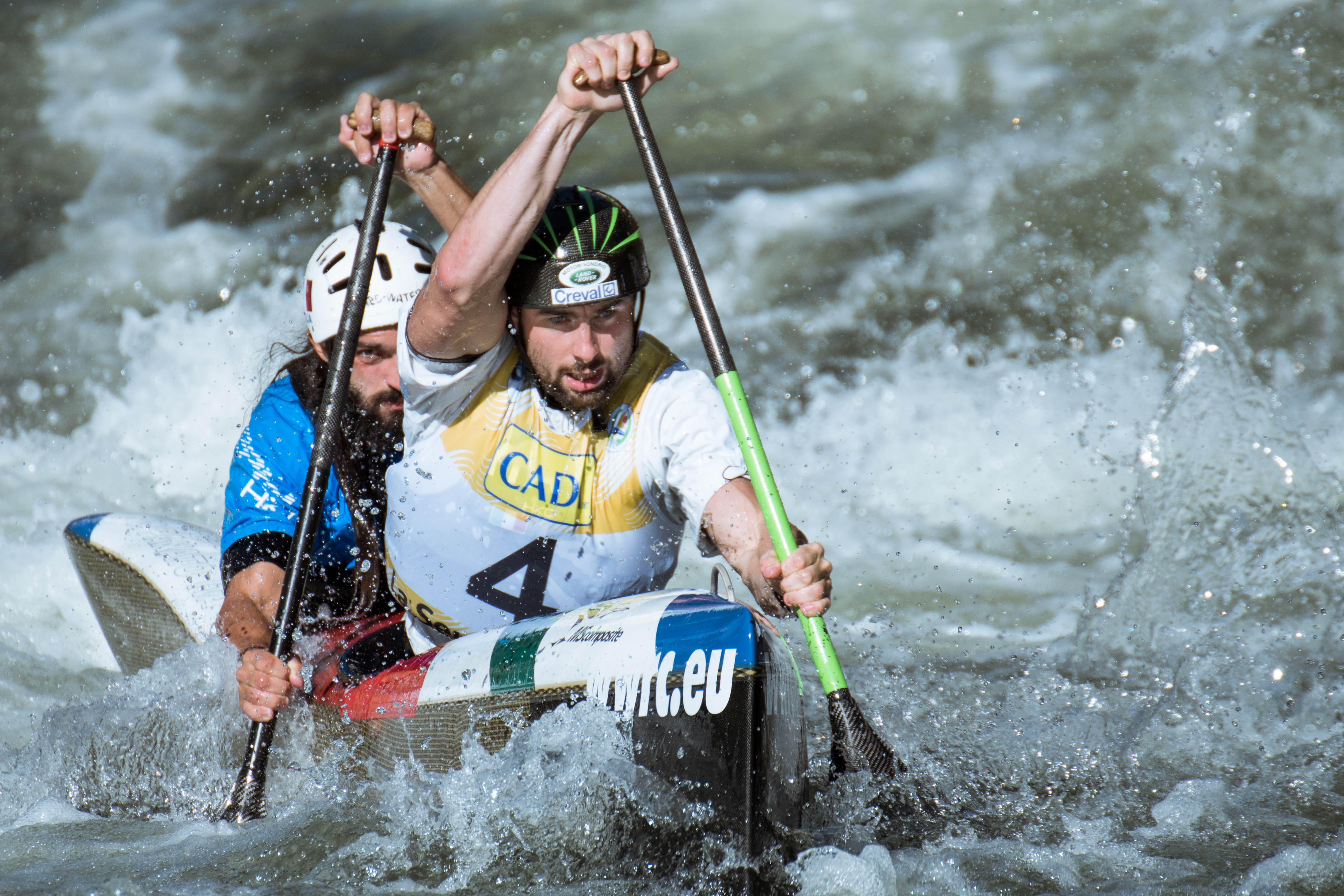 Mattia Quintarelli and Giorgio Dell'Agostino during the 2019 Canoe Wildwater World Championships in La Seu d'Urgell, Spain.